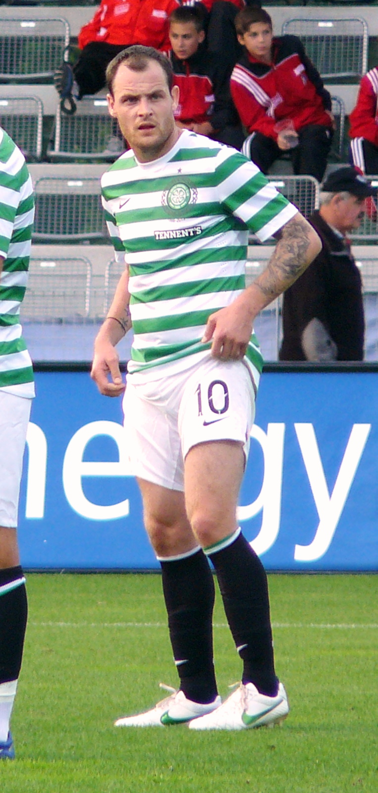 Anthony Stokes, Irish footballer